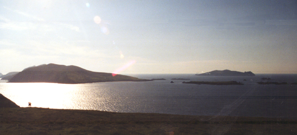 The Blasket Islands in County Kerry, Ireland.